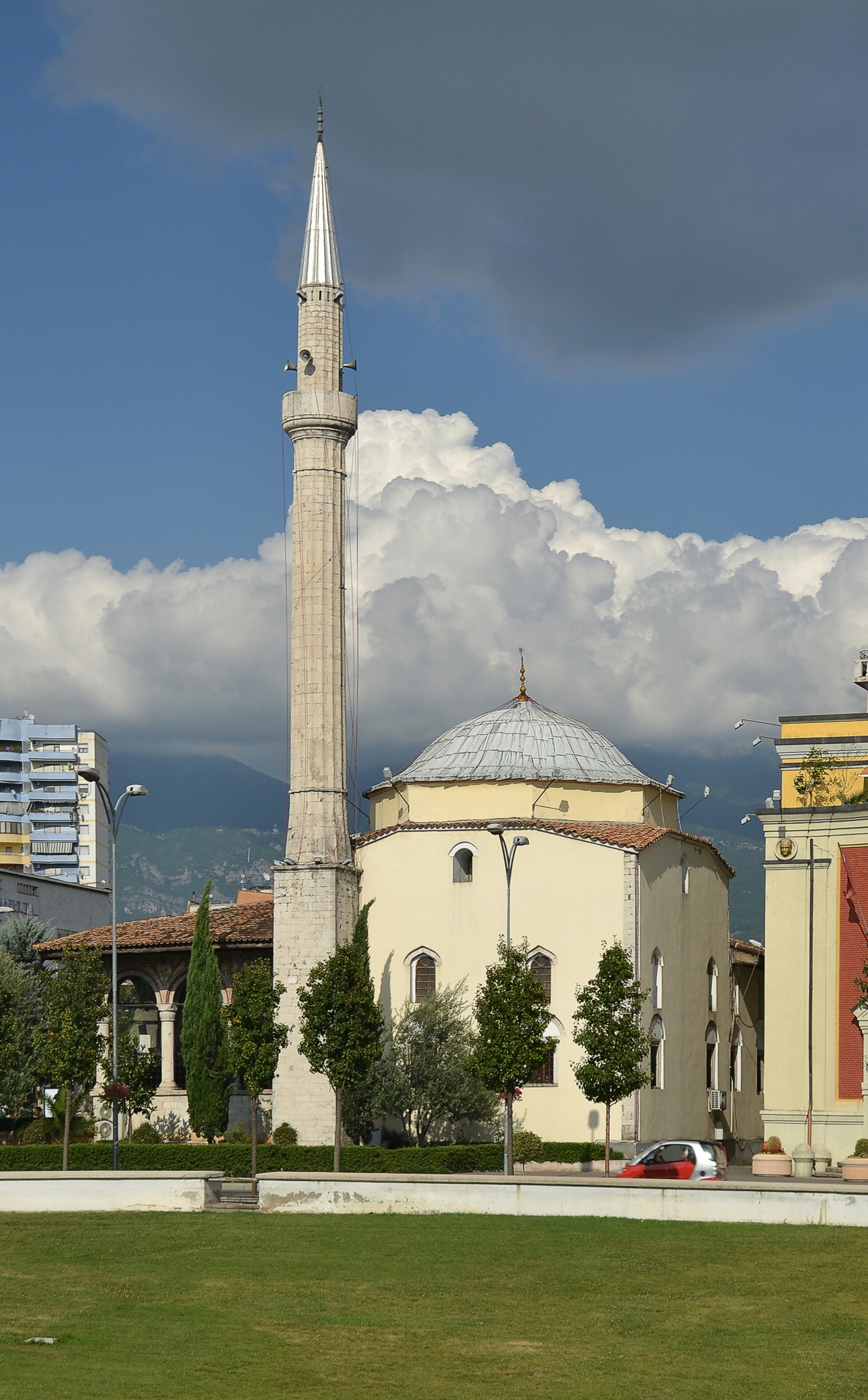 Ethem Bey mosque, Tirana